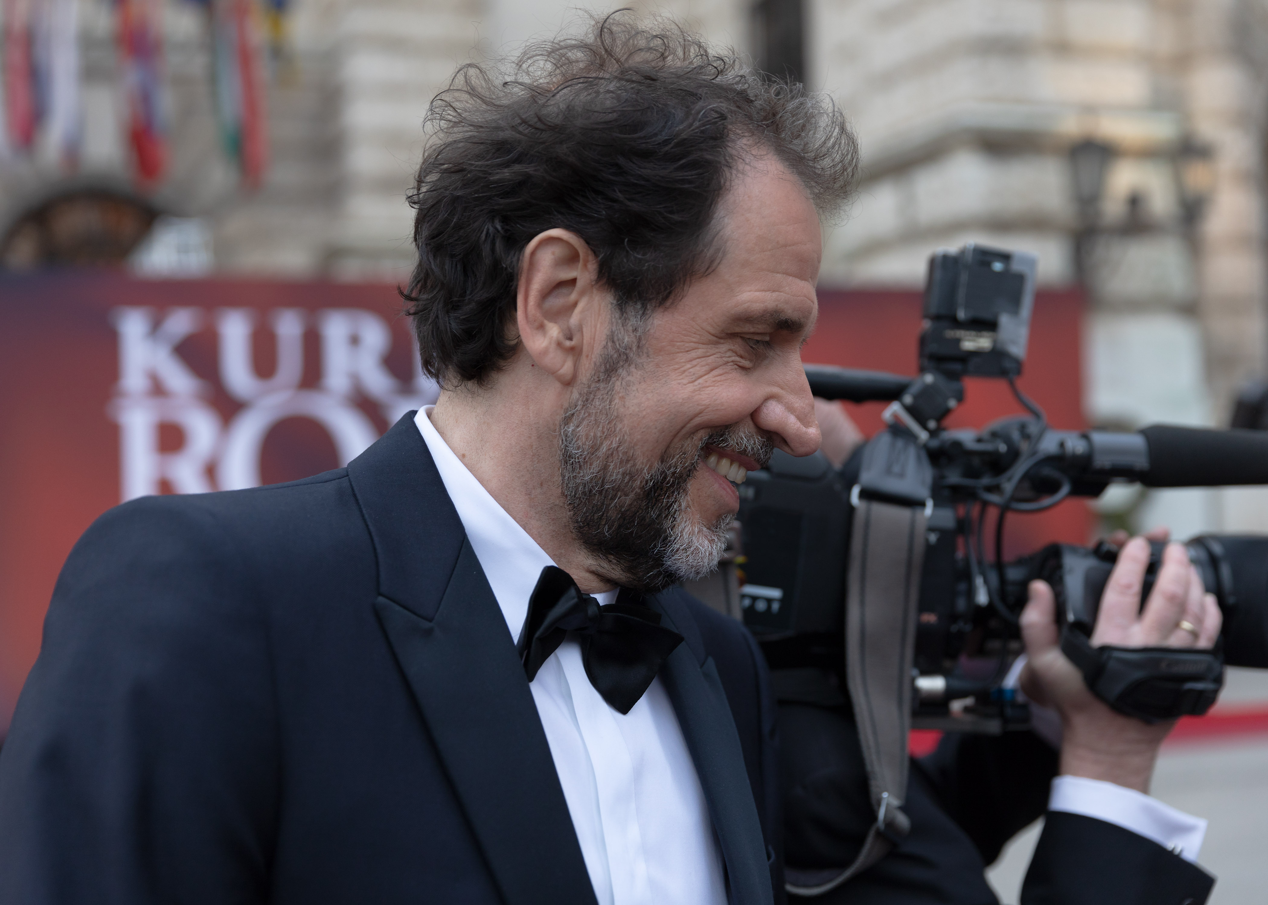 Helmfried von Lüttichau on the red carpet of the Romy TV awards 2018 at Hofburg Palace in Vienna, Austria.